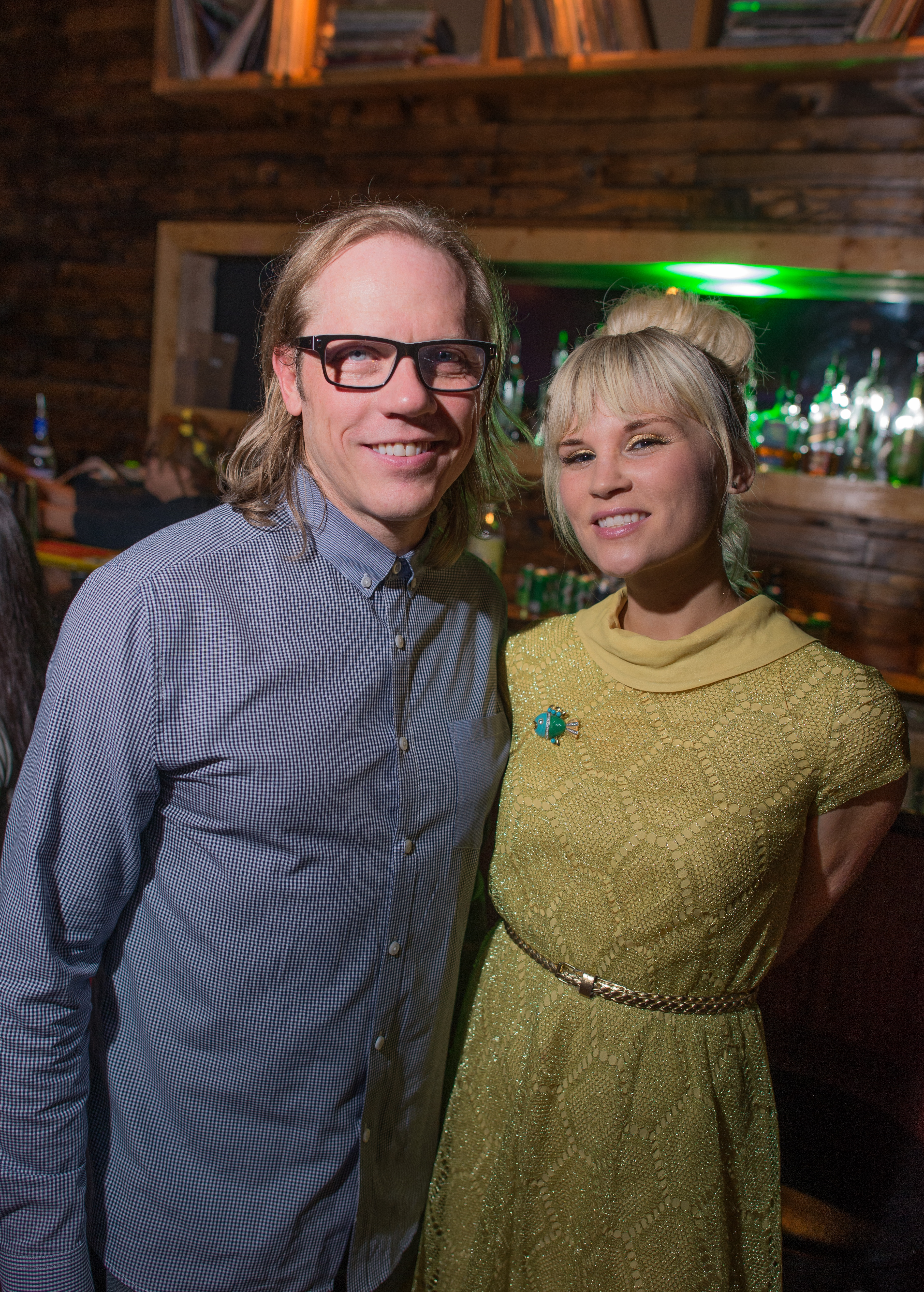 Late Night Alumni at Nextdoor in Honolulu, Hawaii. This was an event put on by Odin Works.